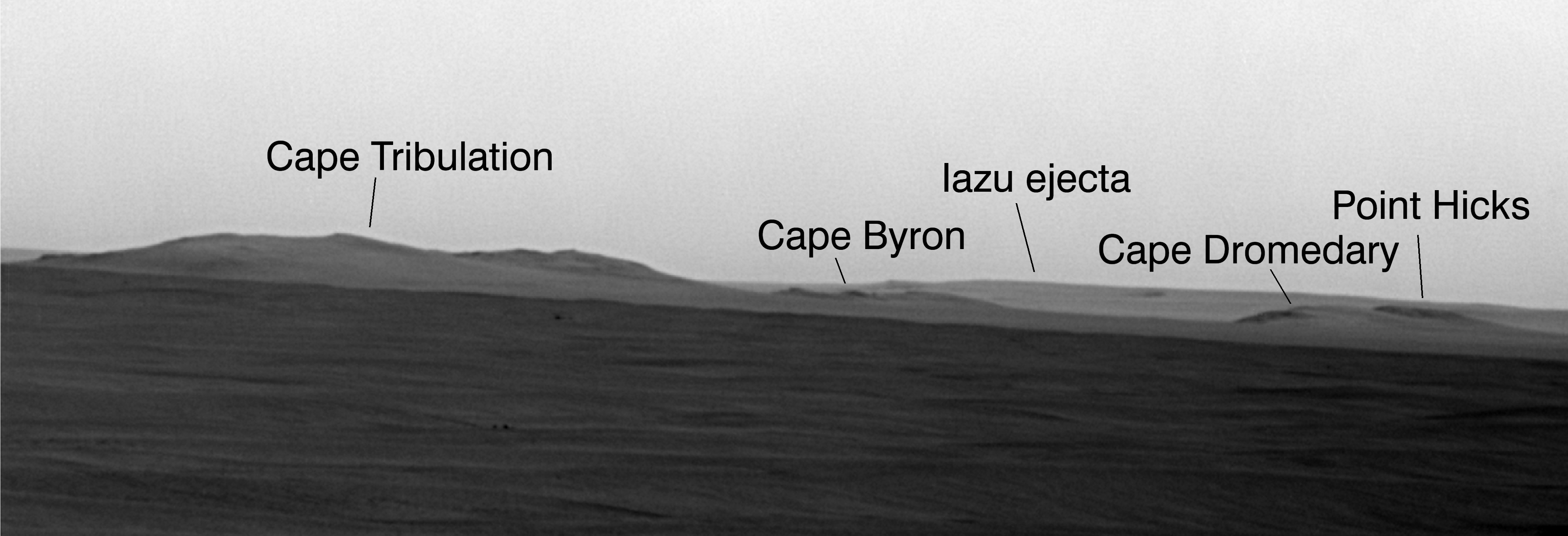 Since the summer of 2008, when NASA's Mars Exploration Rover Opportunity finished two years of studying Victoria Crater, the rover's long-term destination has been the much larger Endeavour Crater to the southeast. By the spring of 2010, Opportunity had covered more than a third of the charted, 19-kilometer (12-mile) route from Victoria to Endeavour and reached an area with a gradual, southward slope offering a view of Endeavour's elevated rim. On the 2,239th Martian day, or sol, of Opportunity's mission on Mars (May 12, 2010), the rover used its panoramic camera (Pancam) to take multiple exposures of the horizon toward the southeast. The Pancam team combined these images into this super-resolution view showing details of a portion of the rim of Endeavour about 13 kilometers (8 miles) away, plus more-distant features. Super-resolution is an imaging technique that combines information from multiple pictures of the same target to generate an image with a higher resolution than any of the individual images. Above the dark plains in the lower portion of the view, the horizon in the left half is mostly a portion of Endeavour's western rim. Labels identify some points on the rim that have been assigned informal names by the rover science team, using as a theme names of places visited by British Royal Navy Capt. James Cook in his 1769-1771 Pacific voyage in command of H.M.S. Endeavour. The paler-looking terrain on the horizon beyond Endeavour in the right half of the image is part of a thick deposit of material ejected by the impact that excavated Iazu Crater, south of Endeavour. The observed increase in brightness of Iazu's ejecta relative to Endeavour's features is consistent with modeling by science team members Michael Wolff, of the Space Science Institute, Boulder, Colo., and Ray Arvidson, of Washington University in St. Louis, applying optical characteristics Opportunity has measured in the Martian atmosphere.